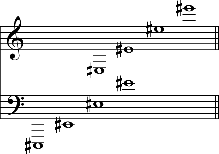 Notes, E Sharp